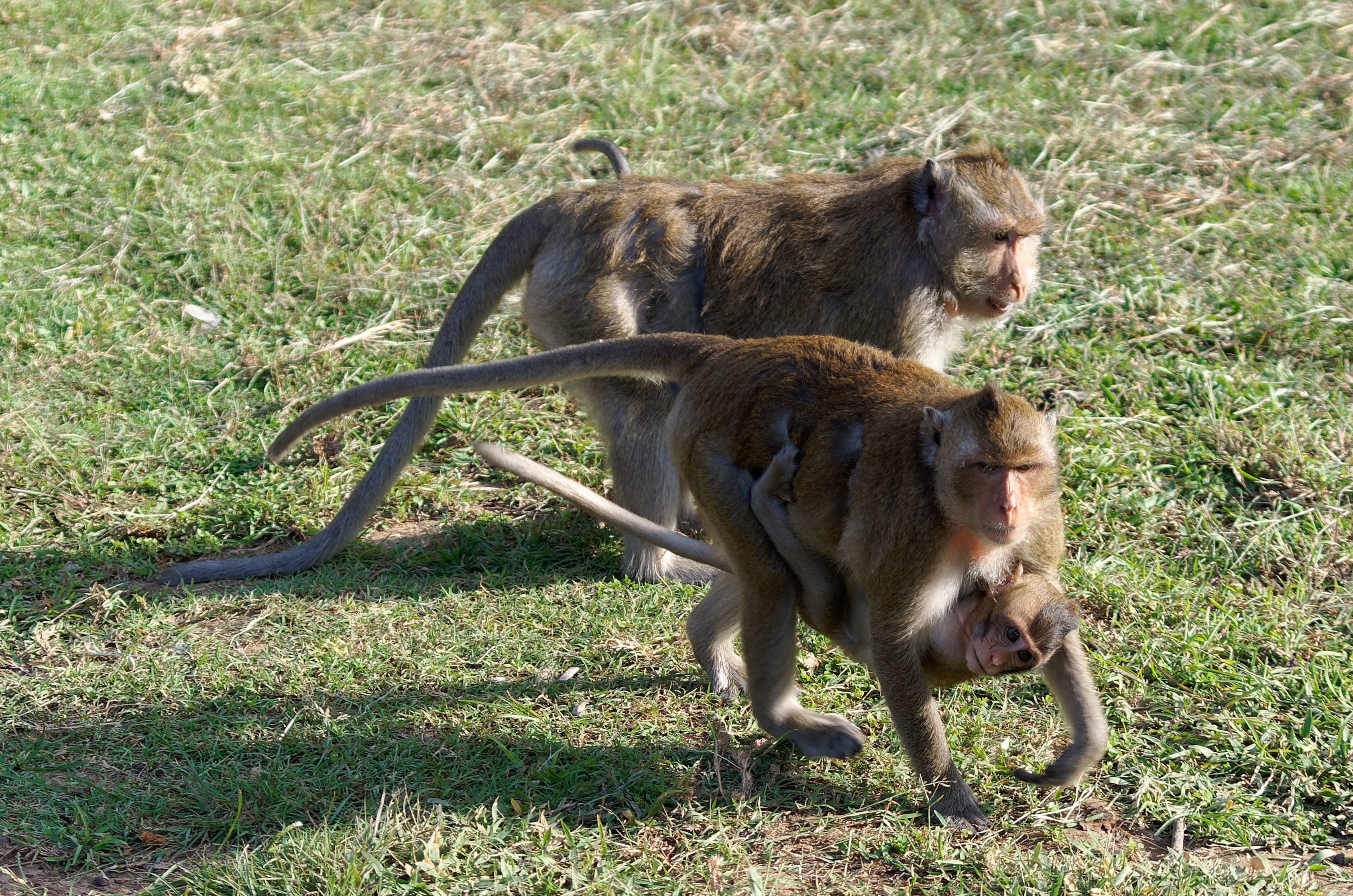 Crab-eating macaques (Macaca fascicularis) in Angkor Wat complex, Cambodia